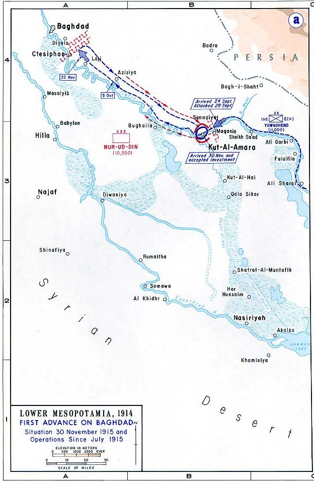 Battle of Ctesiphon (1915).